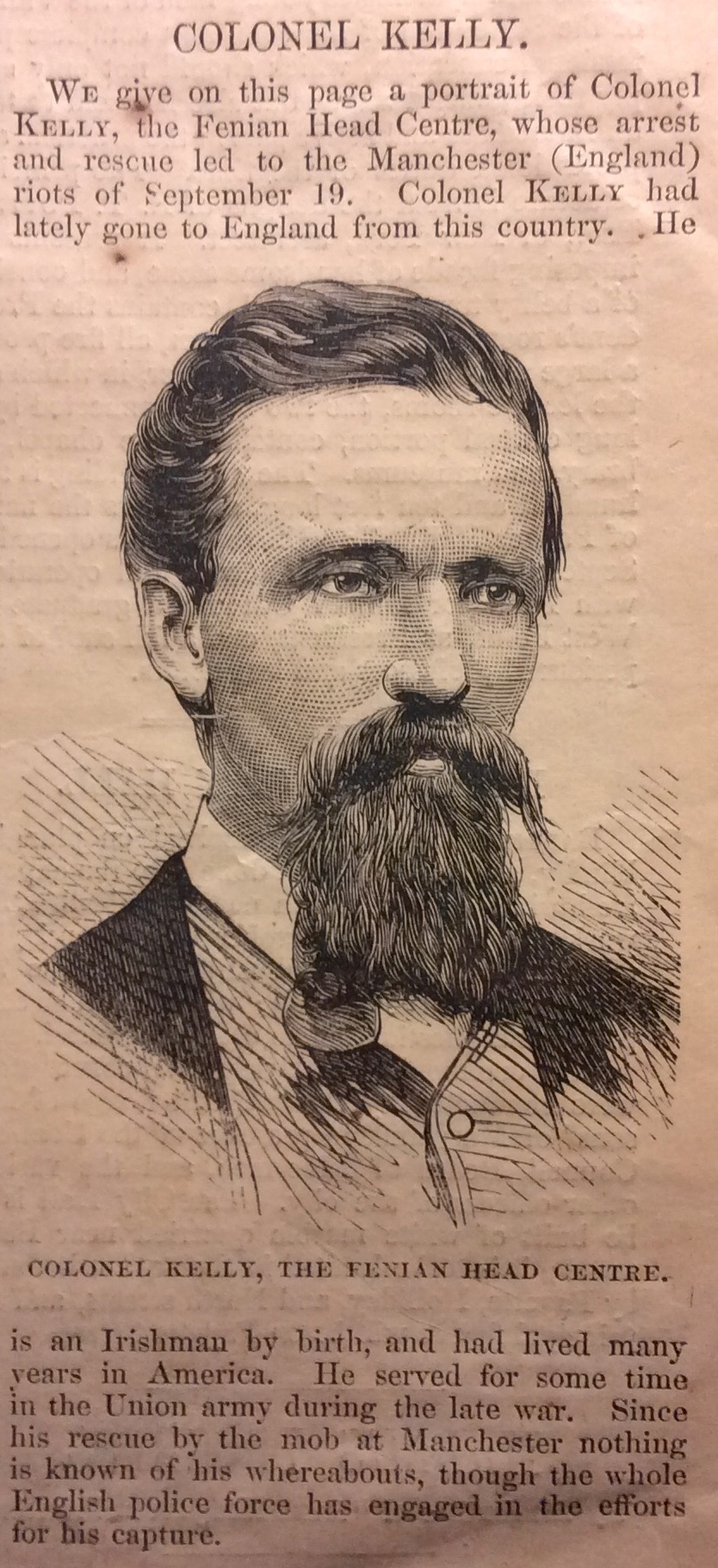 TJKelly "want ad" HarpersWeekly-closeup